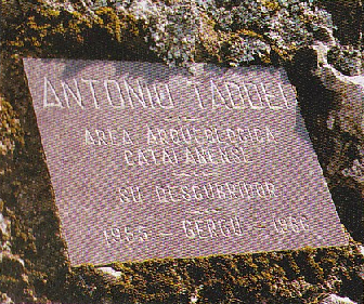 Antonio Taddei